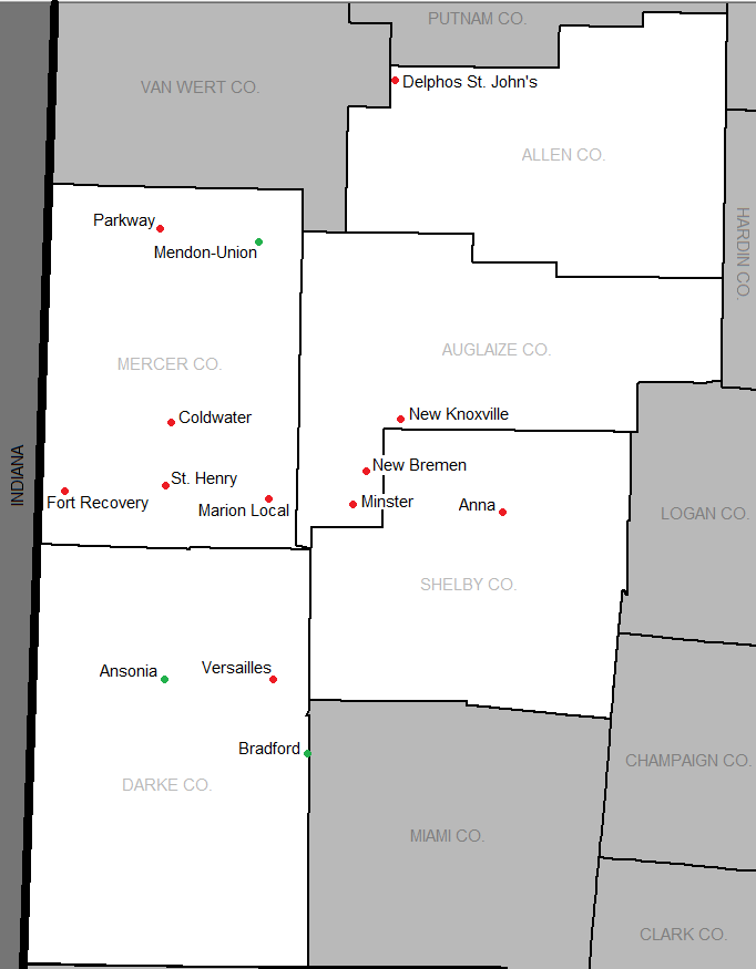 Map showing the all-time members of the MAC.